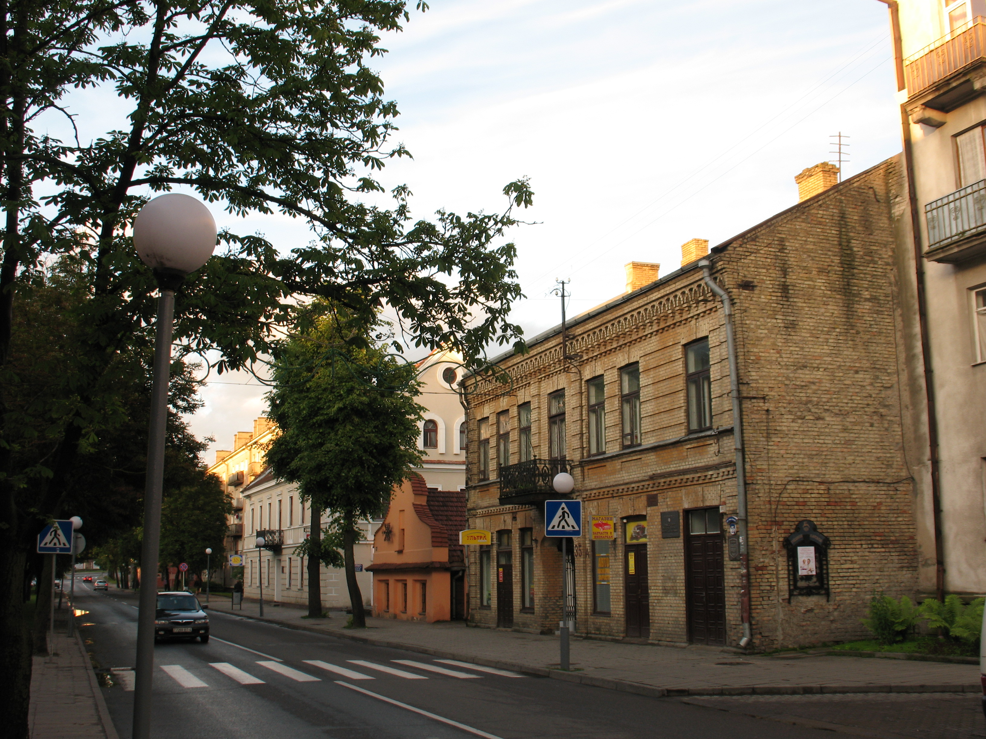 Беларуская (тарашкевіца): Забудова вул. Э. Ажэшкі. г. Горадня This is a photo of Belarusian heritage monument. Reference number: 412Г000005 ( WLM)